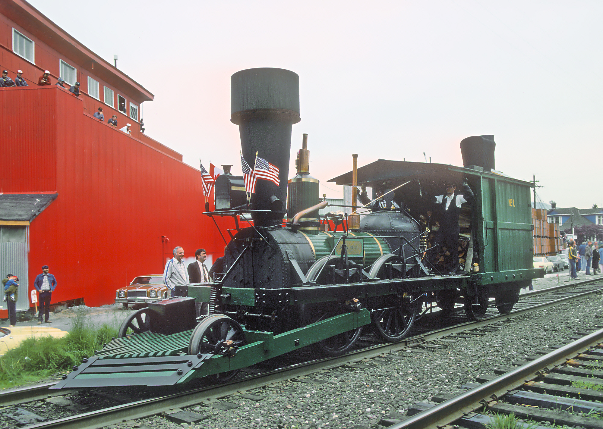 In the Steam Expo Parade of Canadian and U.S. steam locomotives at the 1986 World Exposition on Transportation and Communication (Expo 86), a World's Fair held in Vancouver, BC, Canada. This is one of 17 photos. A Roger Puta Photograph